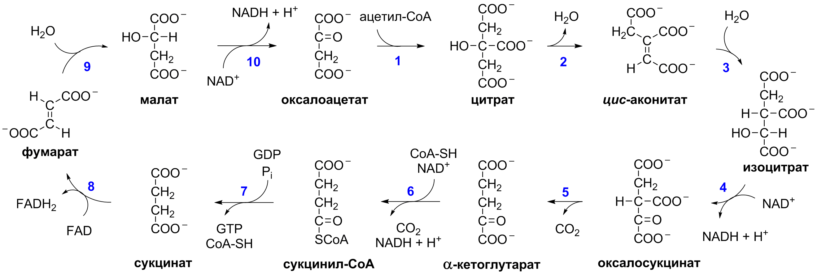 Krebs Cycle